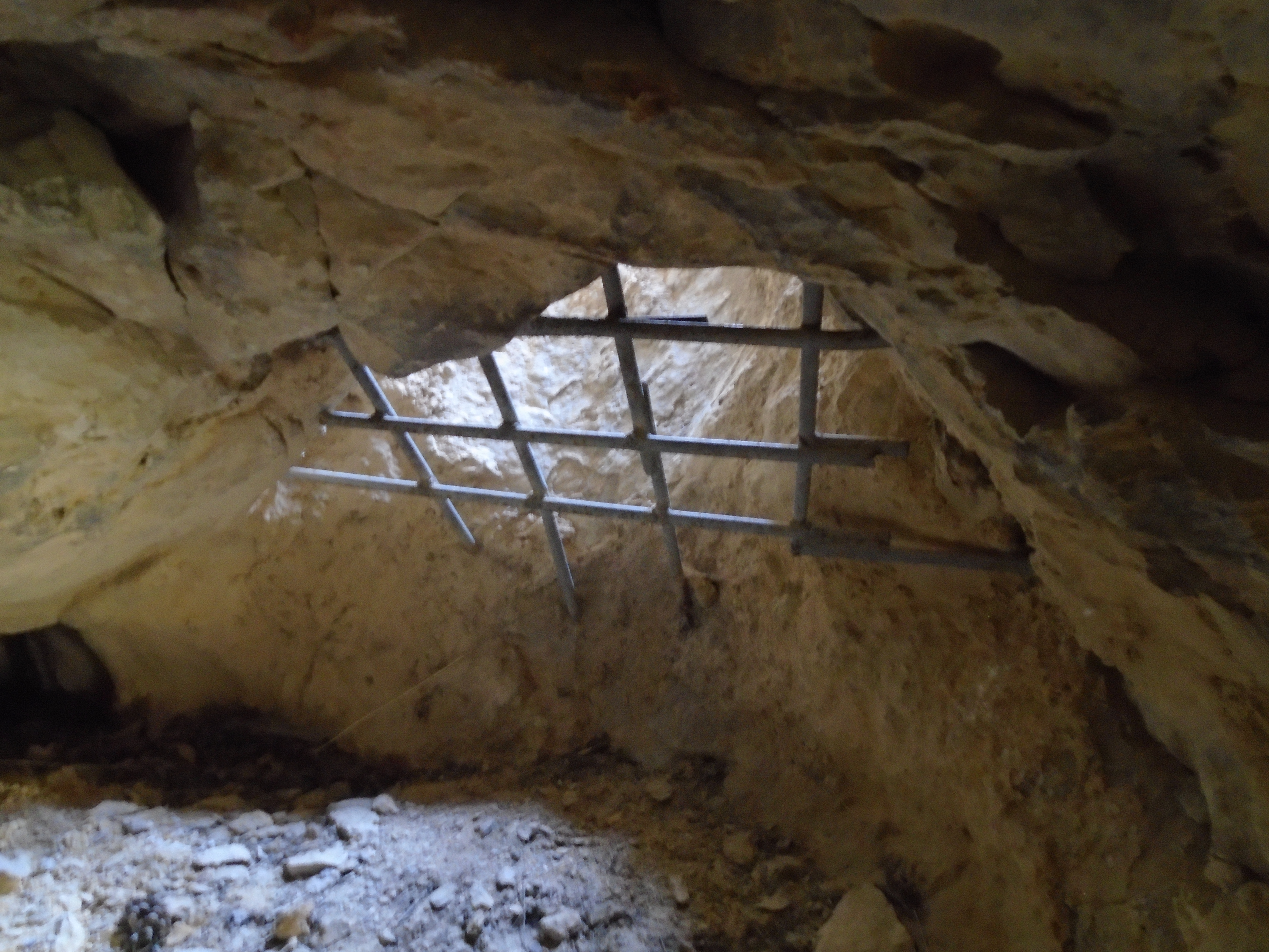 Chimney beginning of Keleti quarry No 7 Cave.